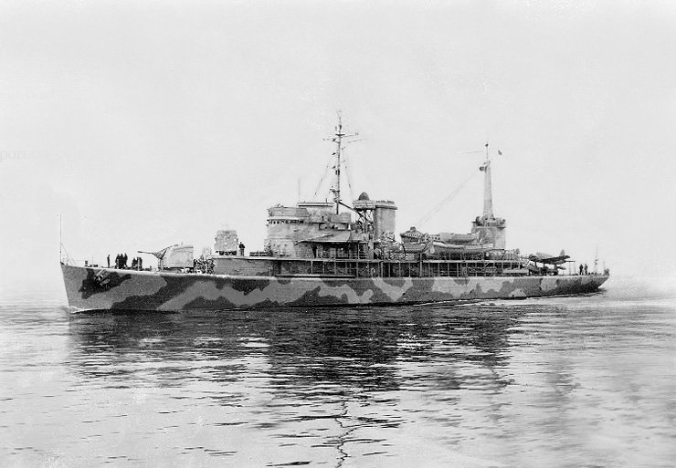 United States Navy seaplane tender USS Biscayne (AVP-11)